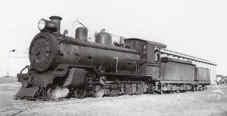 A three quarter view of MRWA D class steam locomotive no. D19 shunting at Arrino, Western Australia. The information about the location, date and author of this photograph is obtained from Gunzburg, Adrian (1989). The Midland Railway Company Locomotives of Western Australia. Melbourne: Light Railway Research Society of Australia. p. 30. ISBN 0909340277.